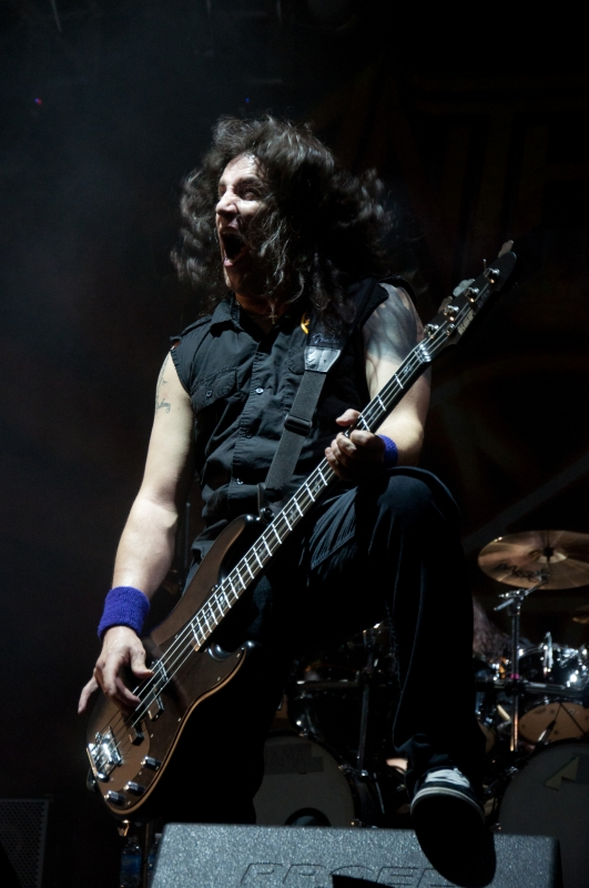 Frank Bello, bassist of Anthrax, performing live at Cosquín Rock (Argentina).